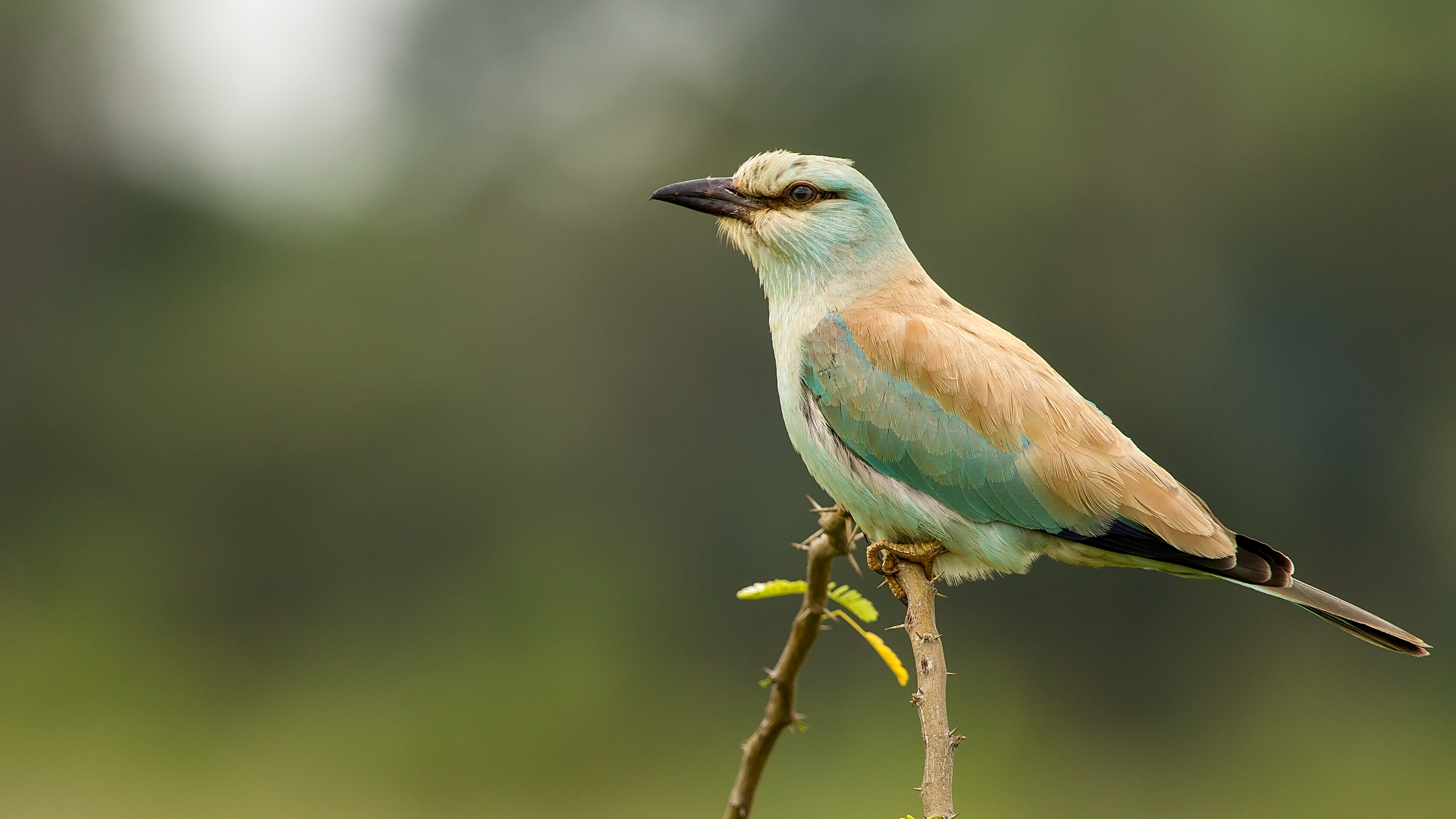 A European Roller at Hessarghatta, Bangalore, India.